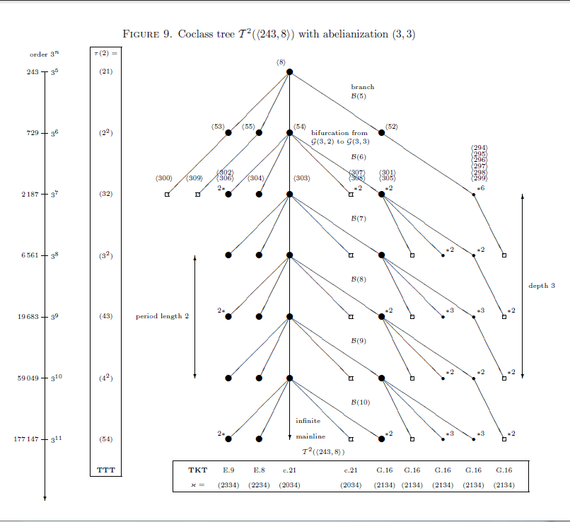 This diagram shows the descendant tree of the root , restricted to finite 3-groups with coclass 2. All vertices possess an abelianization of type (3,3). Important vertices are labelled with their SmallGroups Library identifier in angle brackets. TTT means transfer target type. TKT means transfer kernel type. The mainline descendant of the root was called U by Judith A. Ascione.